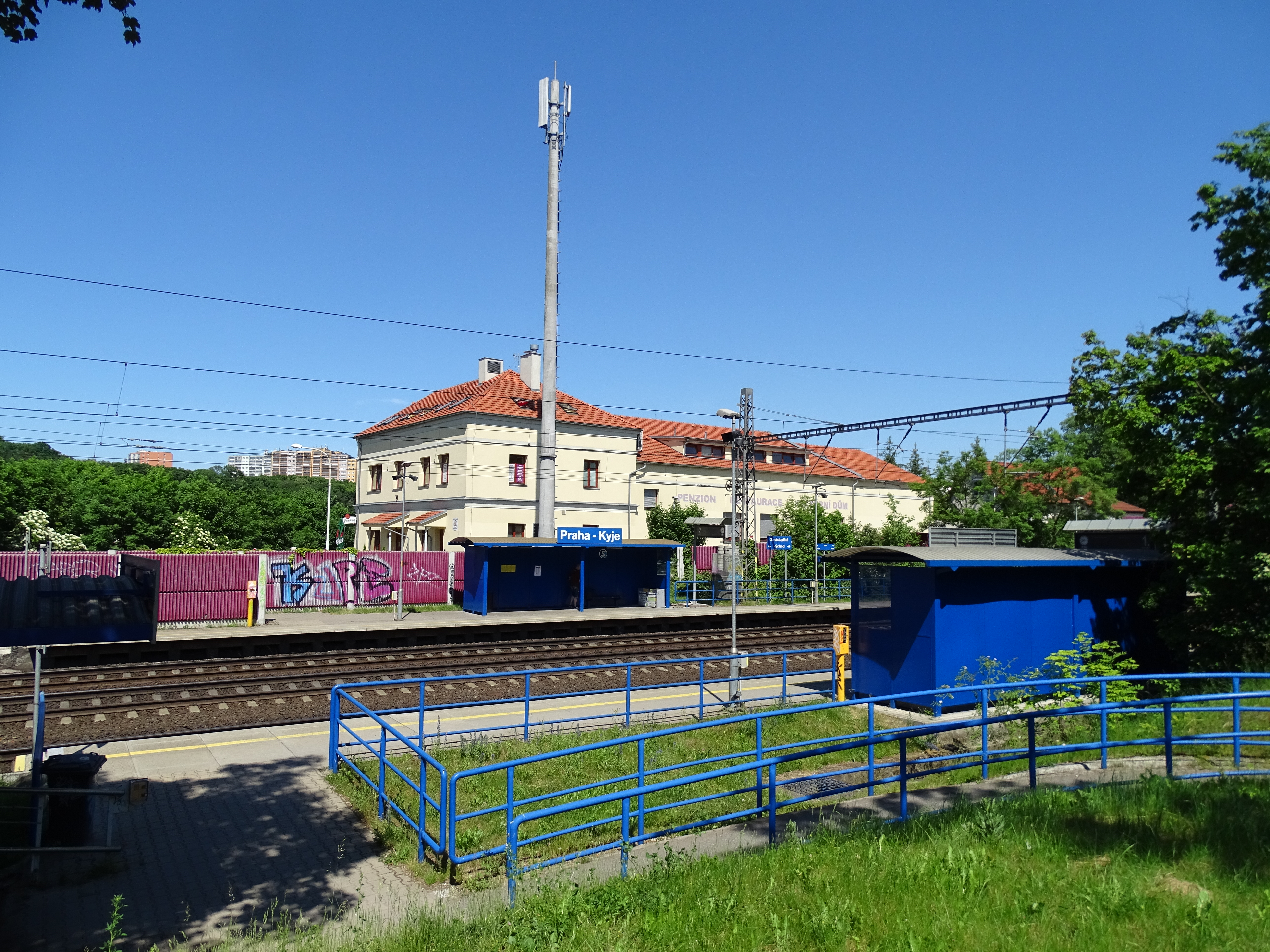 Prague-Kyje, Czechia, Praha-Kyje railway stop.